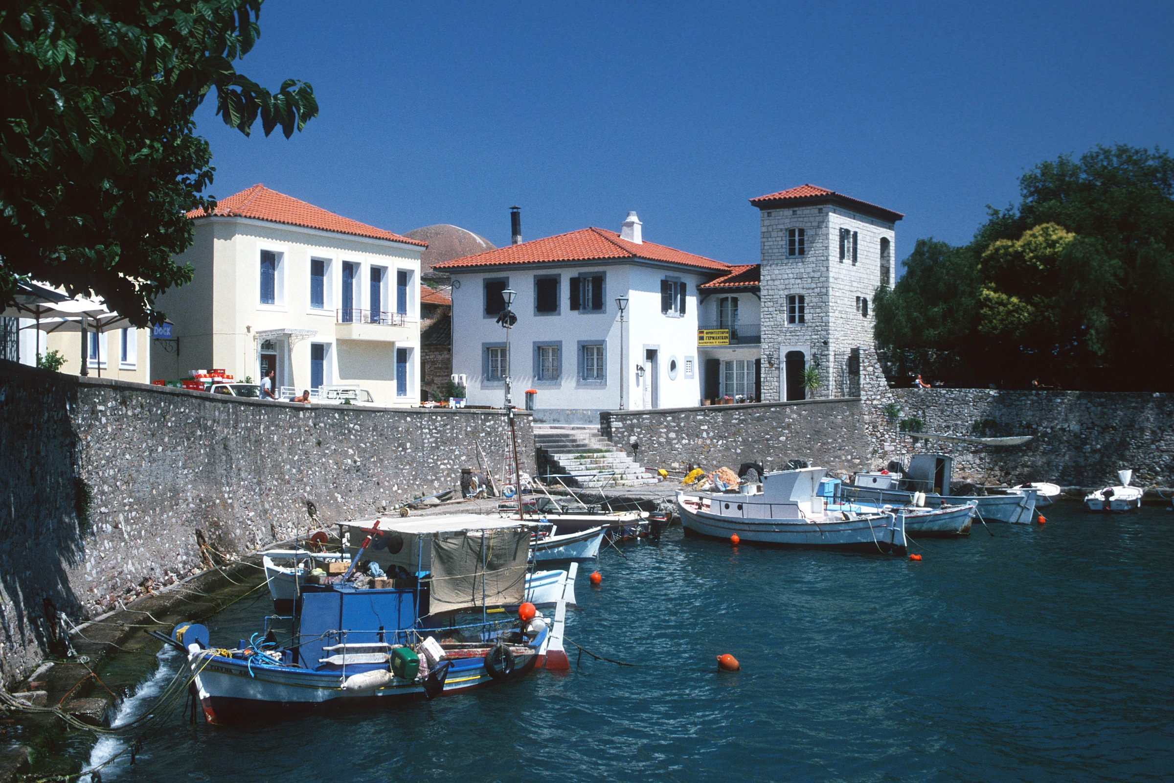 Old harbour of Nafpaktos, West Greece